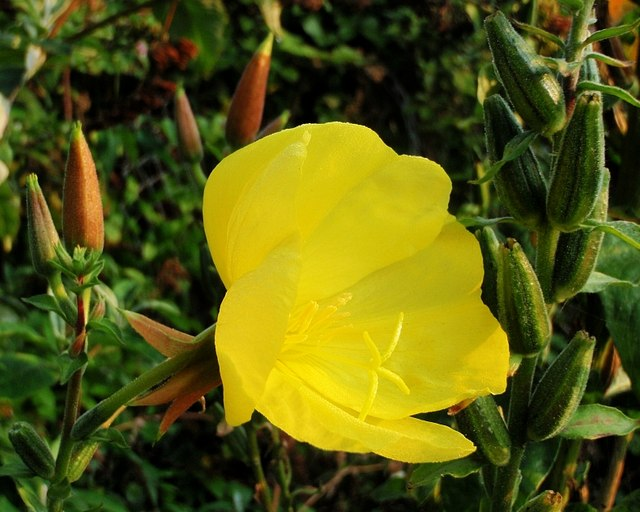 Evening Primrose, Pinn Lane, Exeter. Oenothera biennis growing beside 986829.